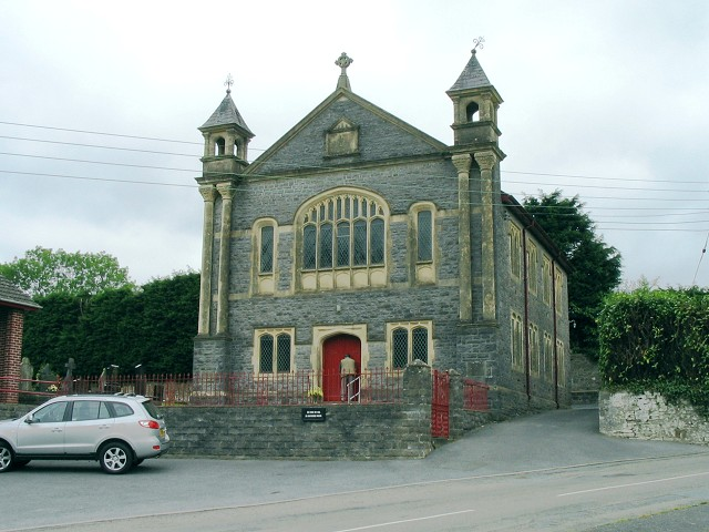 Chapel at Meidrim. This striking chapel looks a bit more special than the norm. The worn stone plaque at the top only has the name "CAPEL" visible.